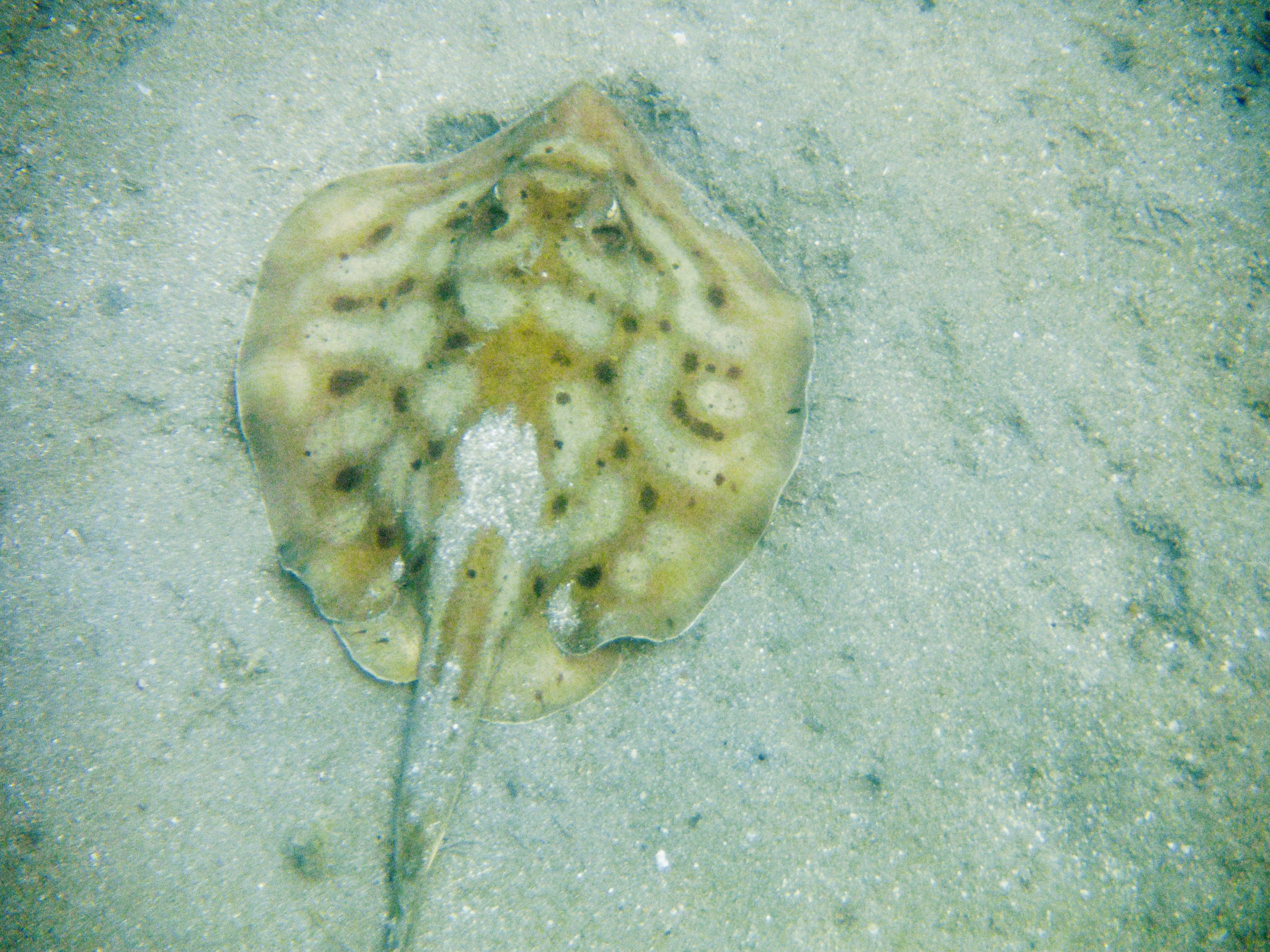 Cortez round ray (Urobatis maculatus) in Danzante Bay at the Islands of Loreto